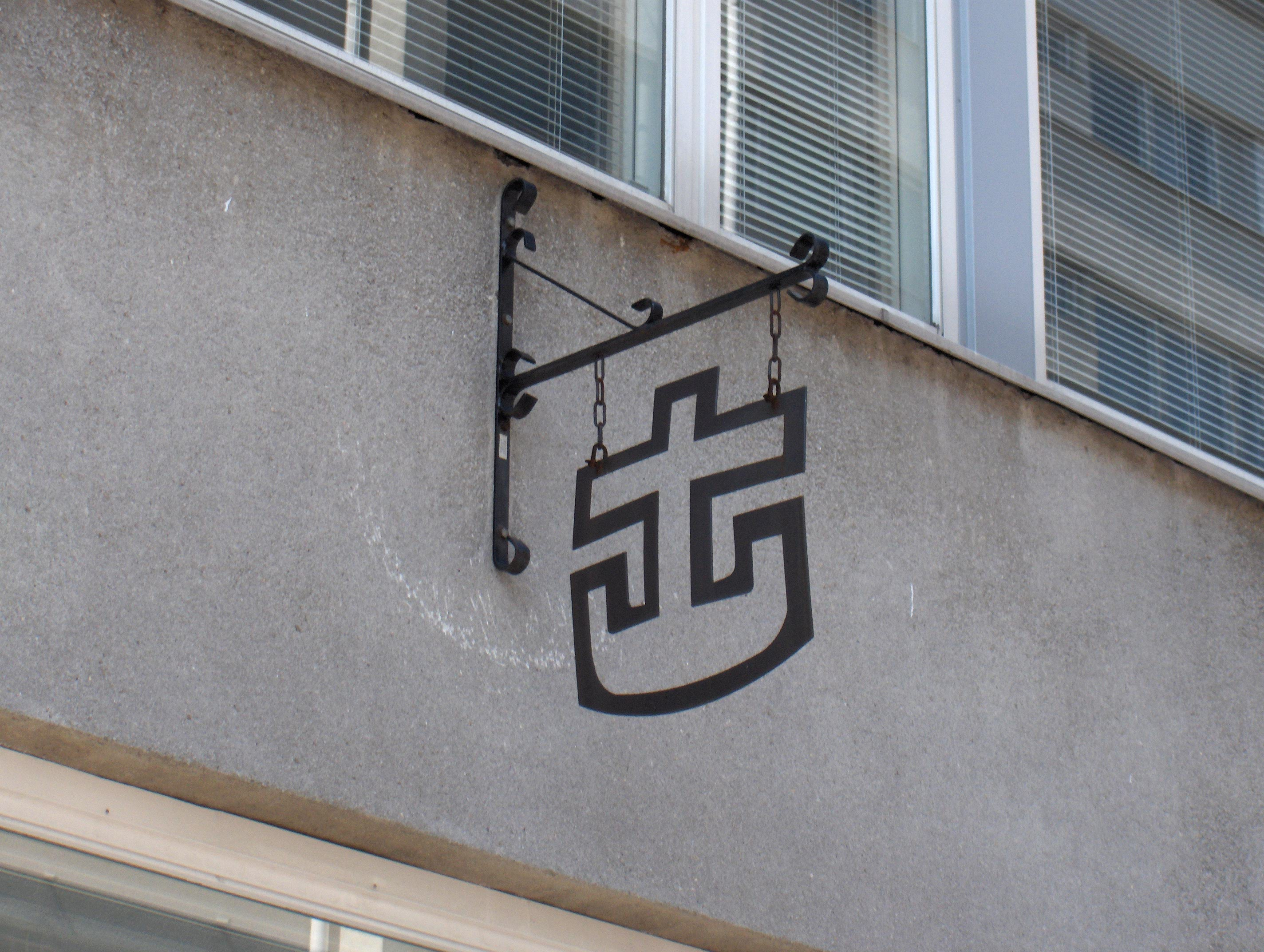 The Cross and Anchor symbol of the Finnish Seamen's Mission, outside the headquarters offices in Helsinki, Finland.